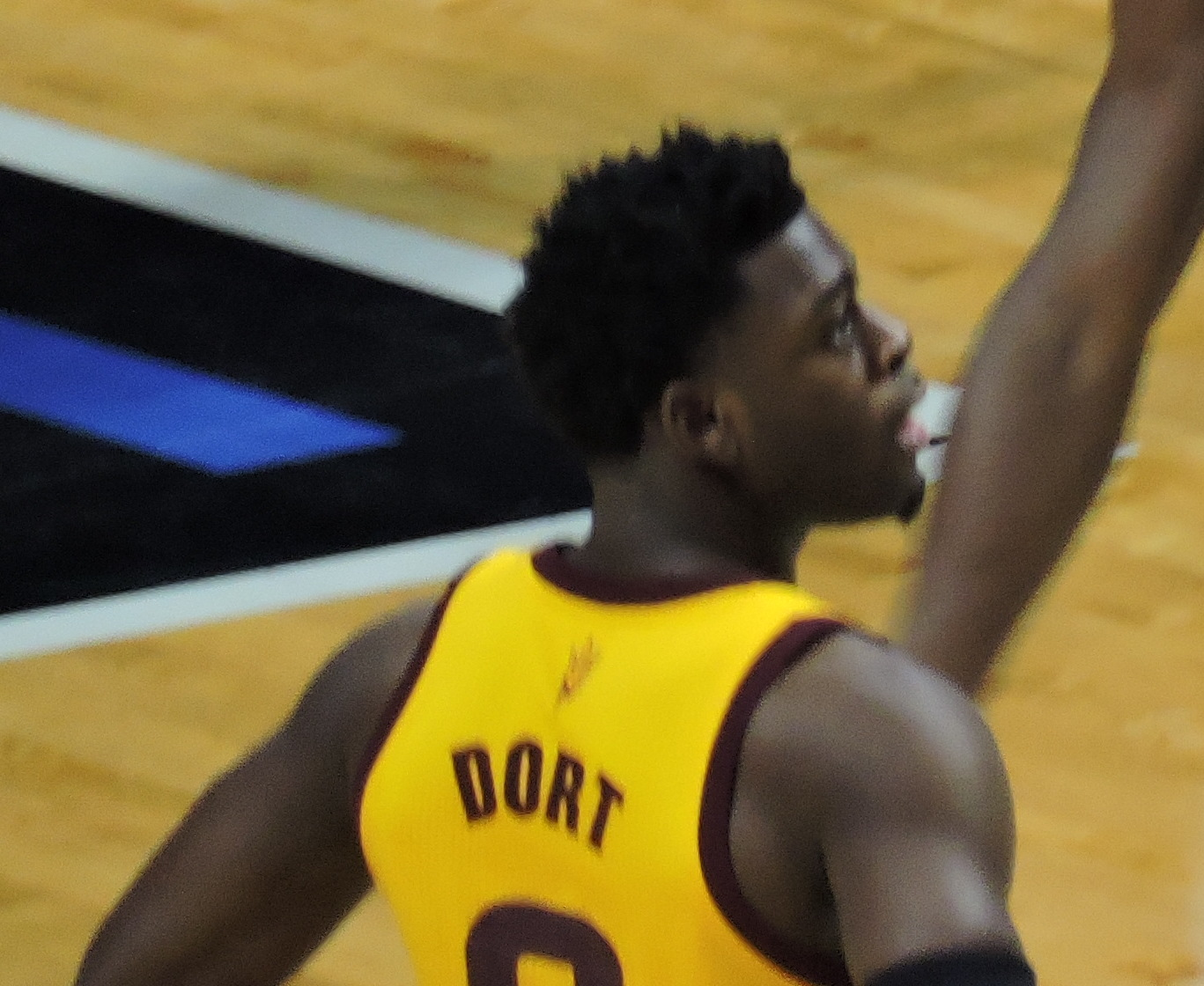 Nick Perkins at the Free throw Line for the Buffalo Bulls during their game with Arizona State in the 2019 NCAA Basketball Tournament in Tulsa Oklahoma.